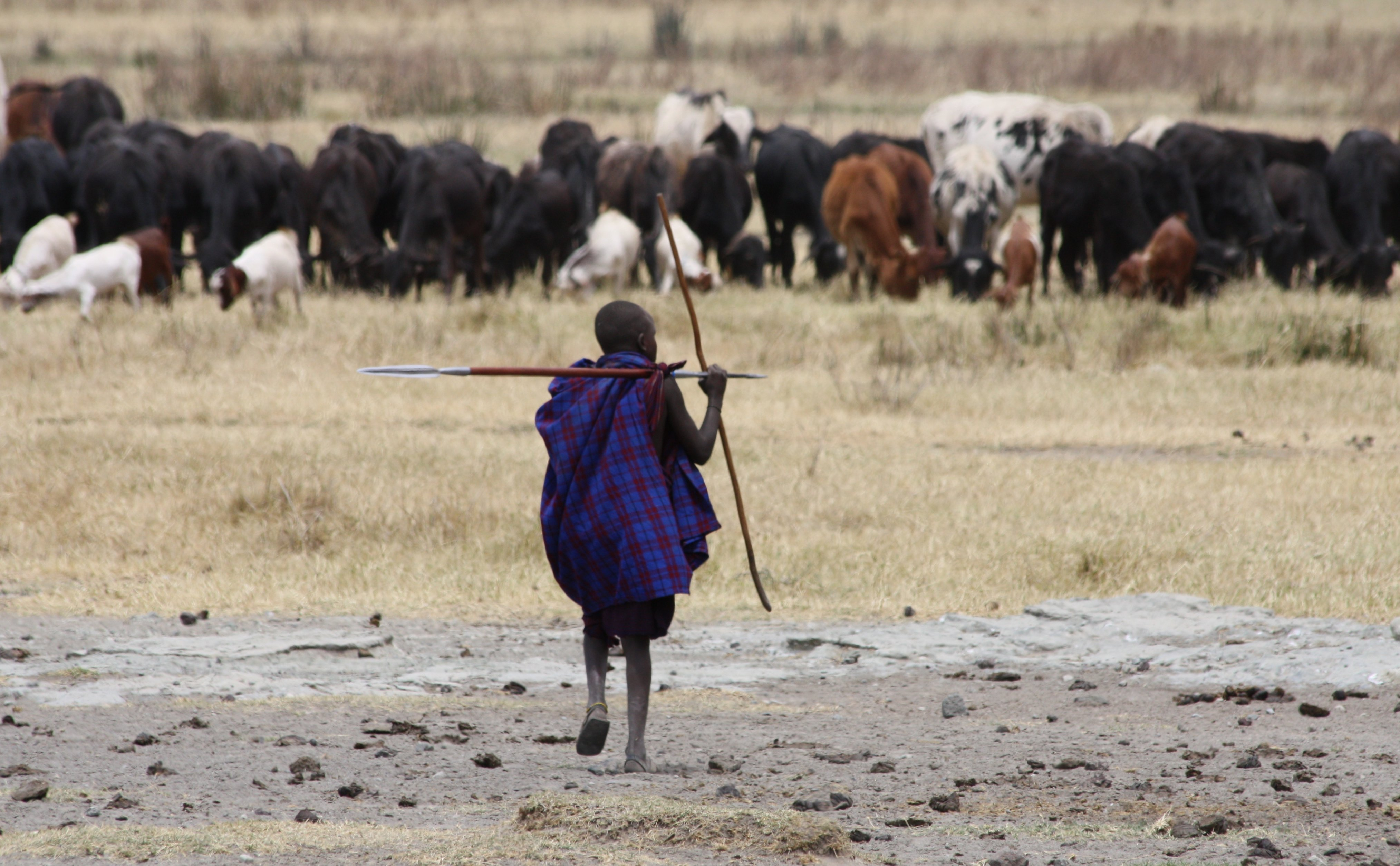 Masai boy in Tanzania headed toward a group of cows, carrying a pole and a spear.